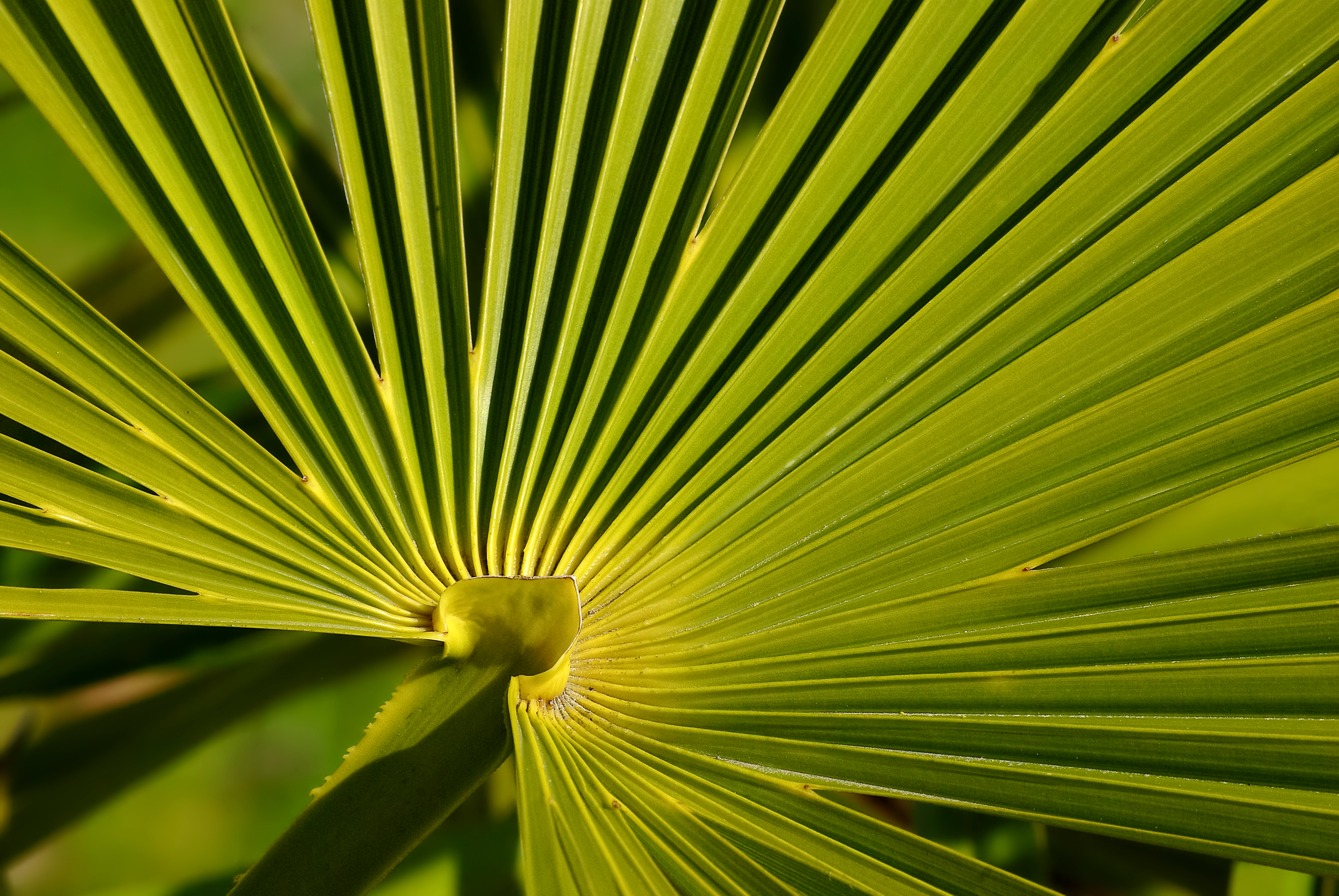 Chinese Windmill Palm (Trachycarpus fortunei), upper face of a leaf, detail. Garden, France.